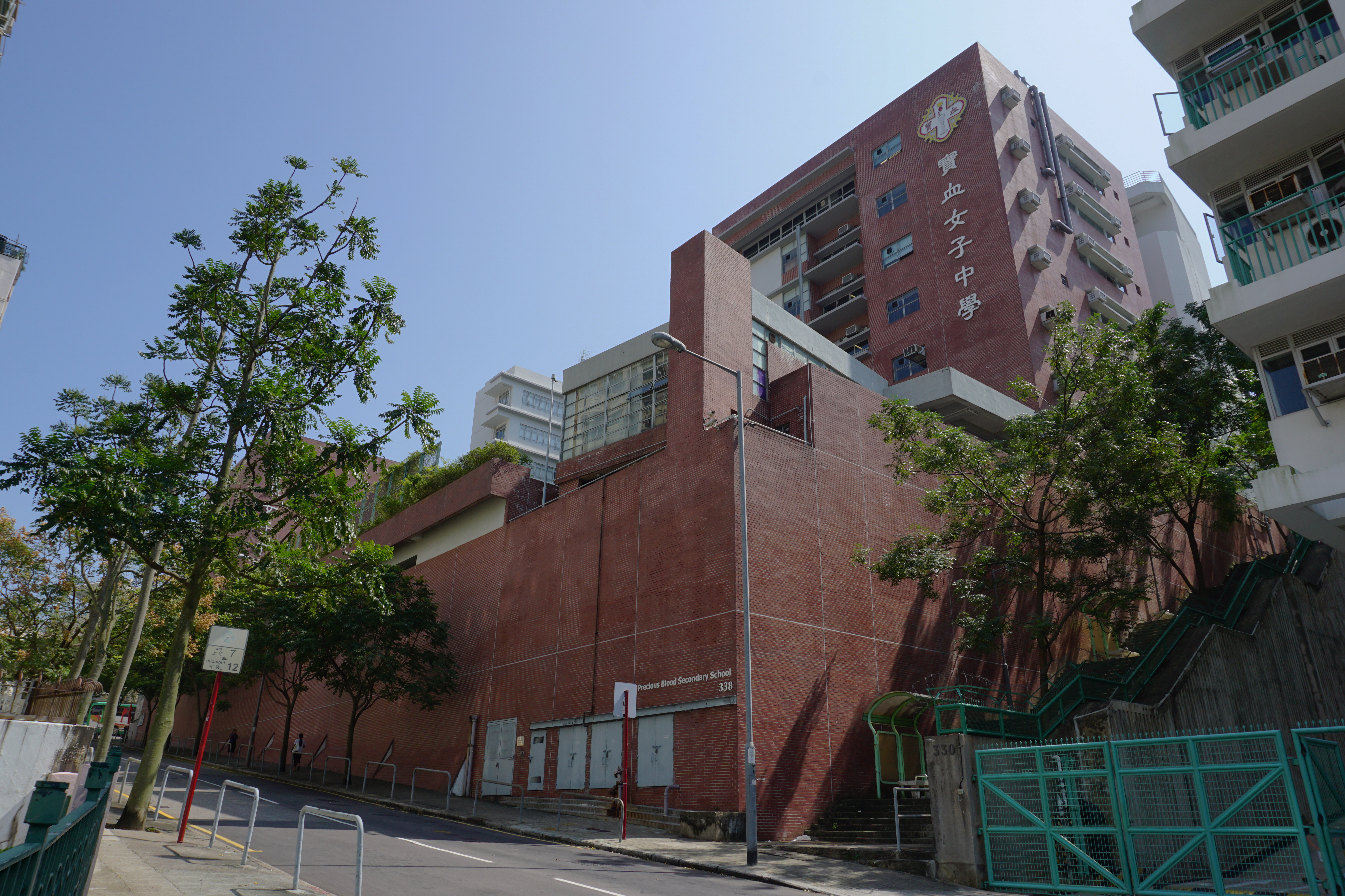 Precious Blood Secondary School in Chai Wan, Hong Kong.